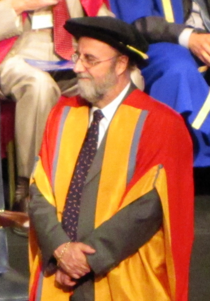 Bob Watson